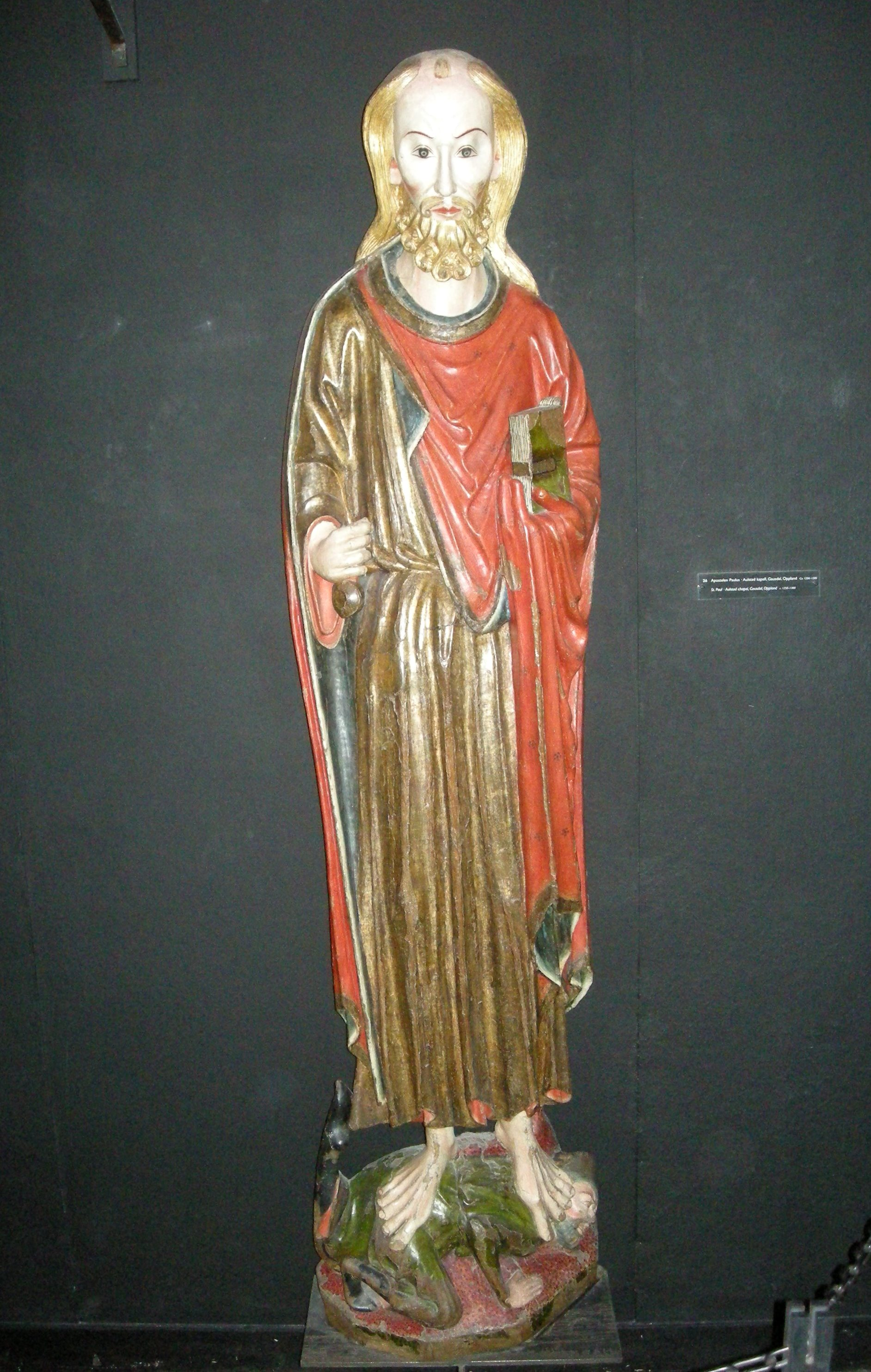 Statue of St. Paul from Svatsum, Gausdal, currently in the Museum of Cultural History, Oslo